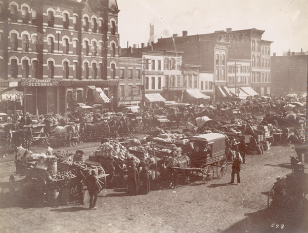 Randolph Street Market, west of Desplaines Street on the Near West Side of Chicago.